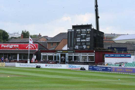 Second scoreboard at Taunton Cricket Ground